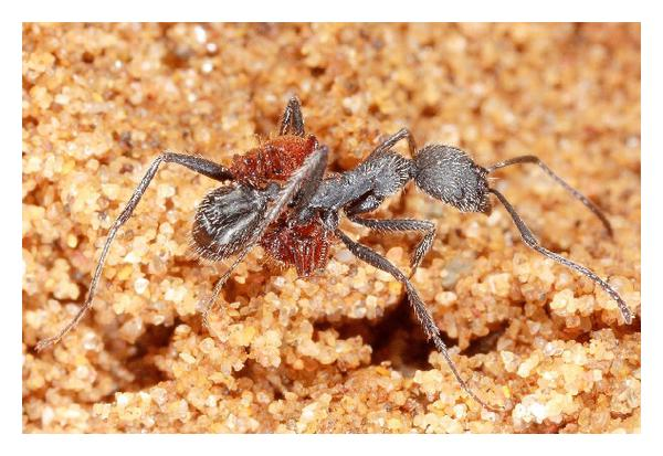 Two Sternocoelis slaoui riding on an Aphaenogaster worker